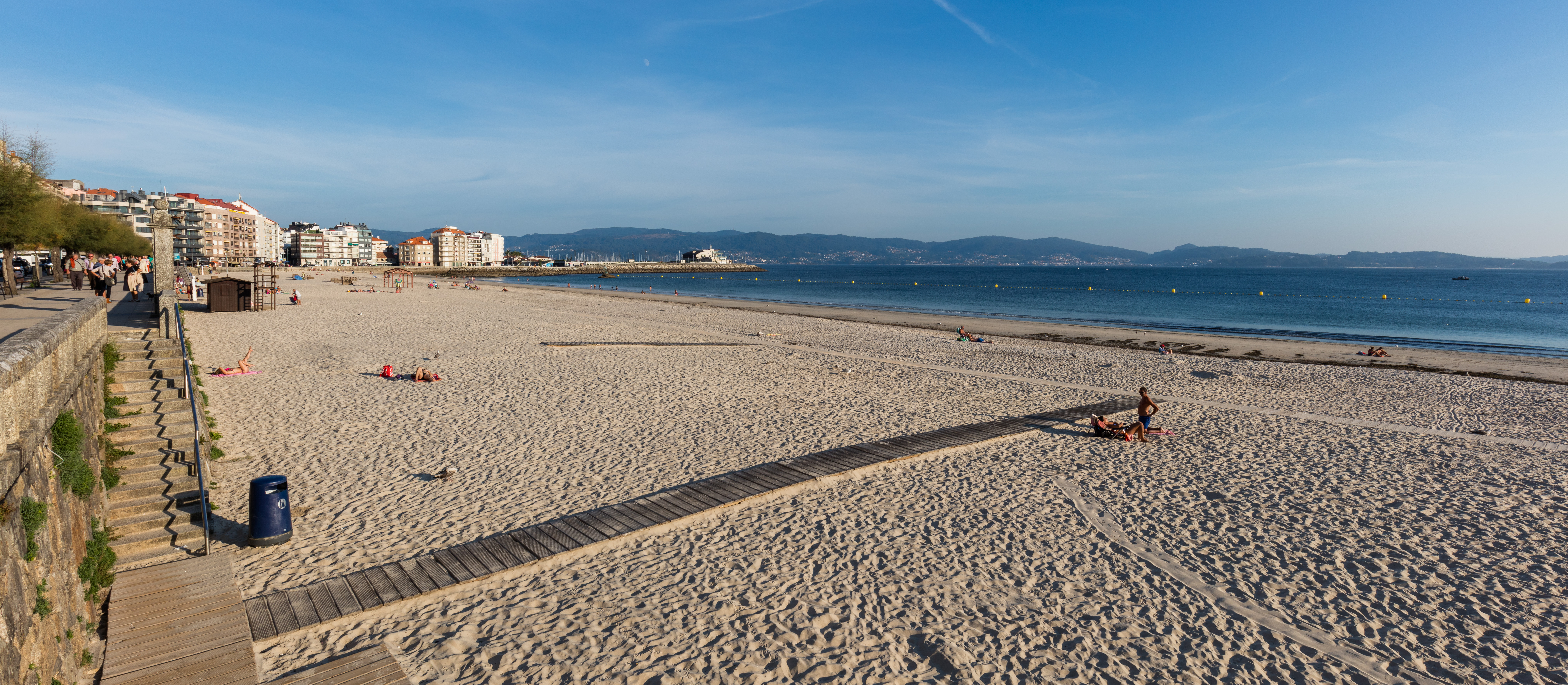 Beach of Silgar, Sangejo, Pontevedra, Spain